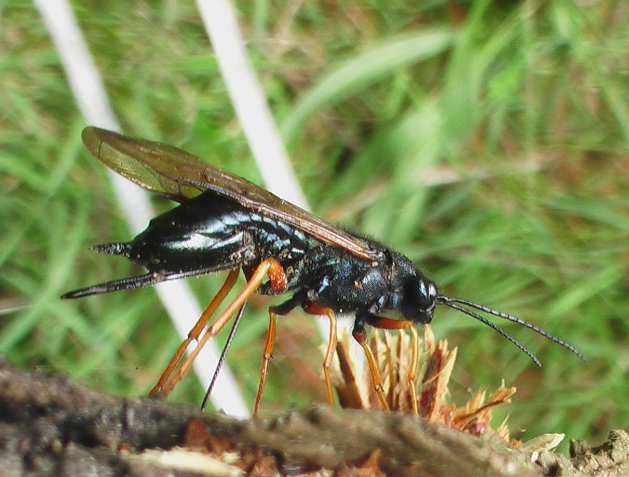 Sirex Woodwasp (Sirex noctilio) on Monterey Pine (Pinus radiata)